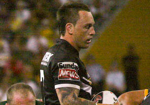 Lockyer and Fien at the scrum